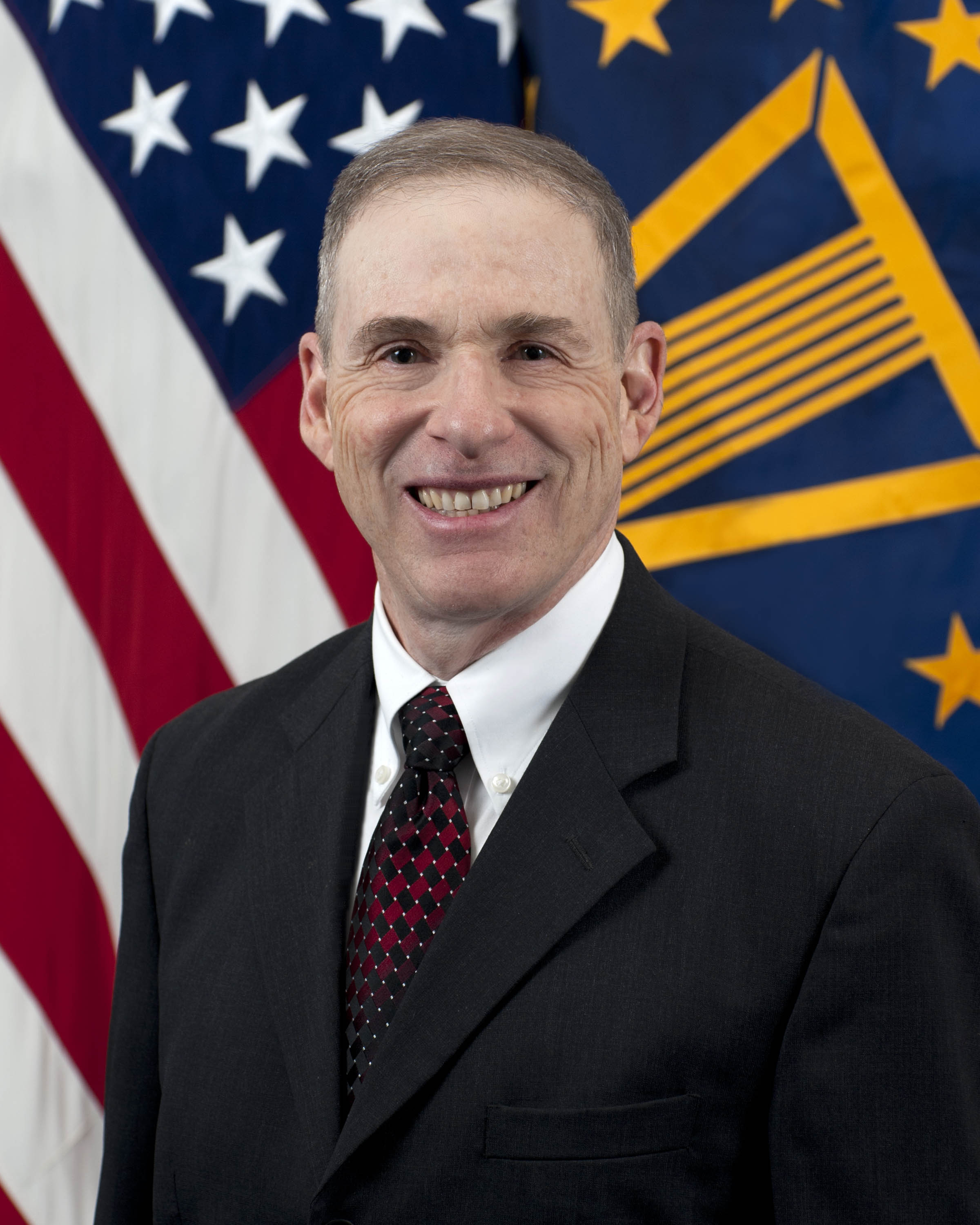 Douglas L. Loverro, Deputy Assistant Secretary of Defense for Space Policy